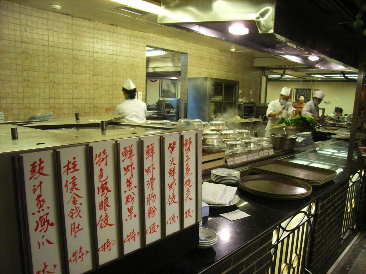 The kitchen and dim sum in the China Hotel, Guang Zhou, China